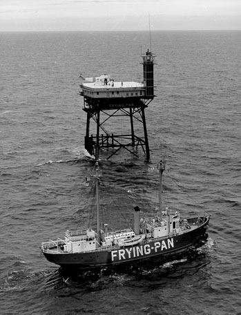 The U.S. Coast Guard Frying Pan Lightship and Frying Pan Shoals Light, circa in 1965. The lightship was replaced after 34 years of service.